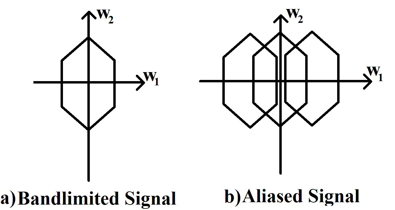 Aliasing example in Fourier domain